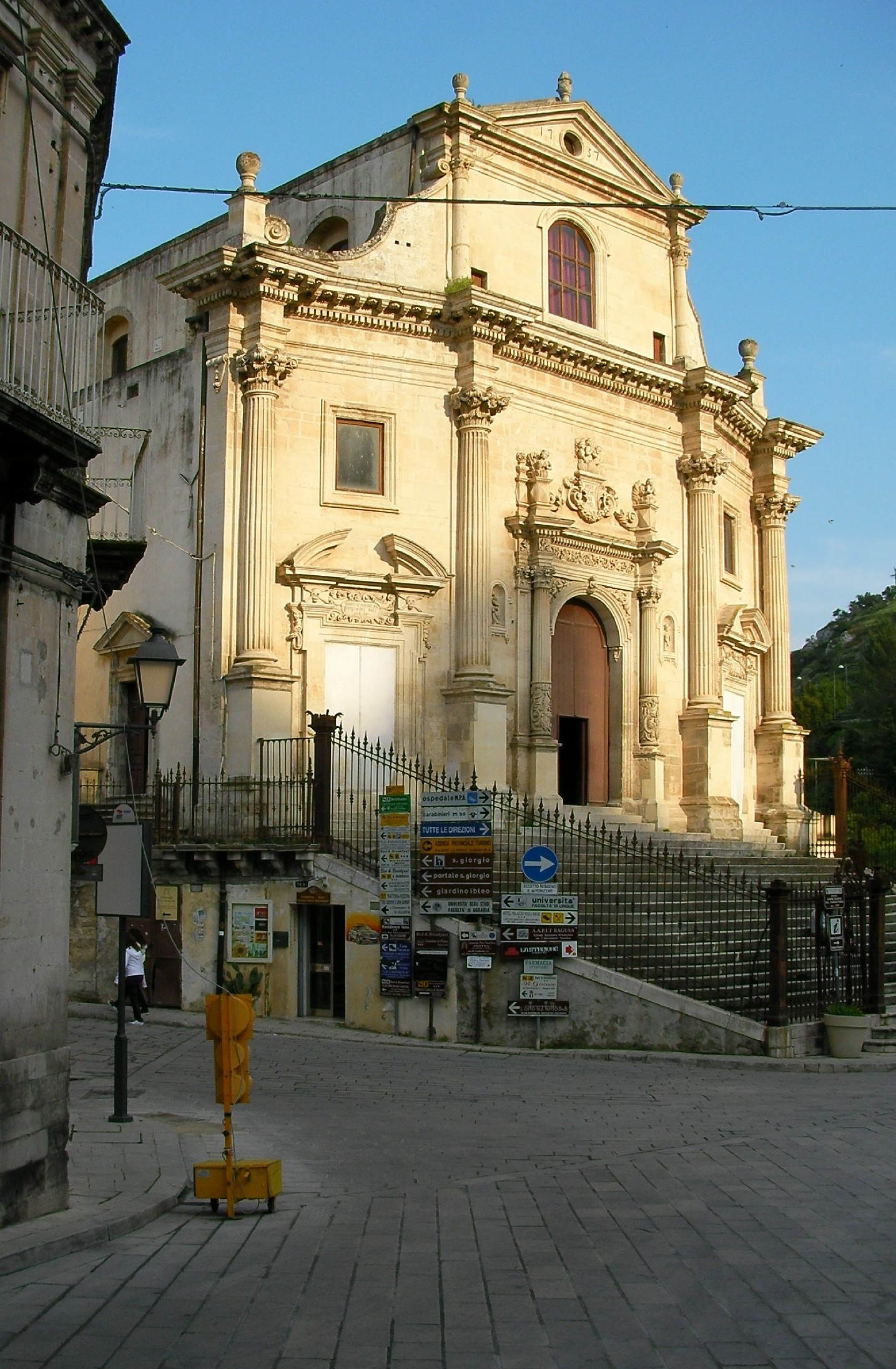 The church of the Saints Souls of Purgatory, Ragusa Ibla, Sicily